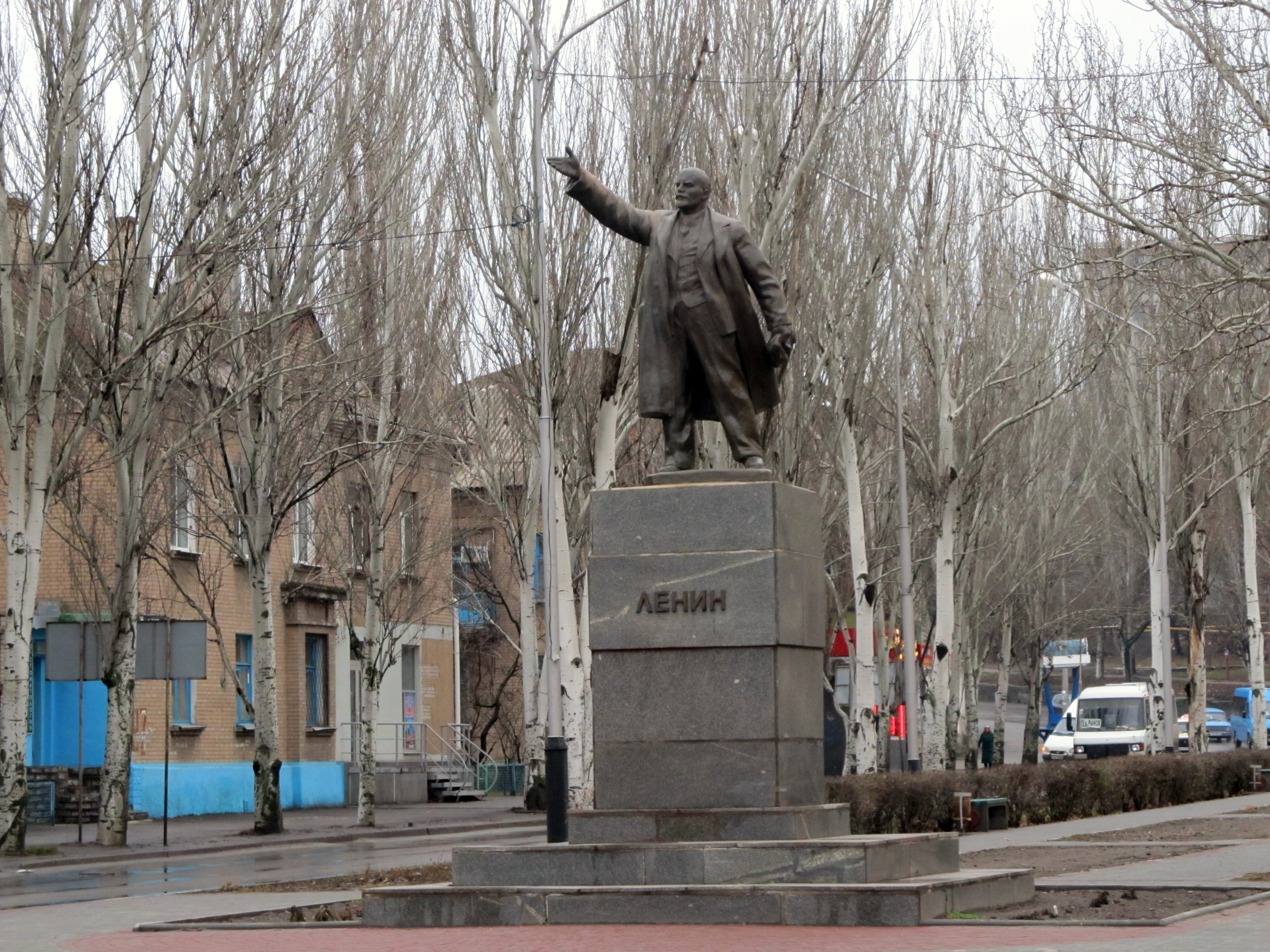 Lenina Street, Melitopol, Zaporizhia Oblast, Ukraine